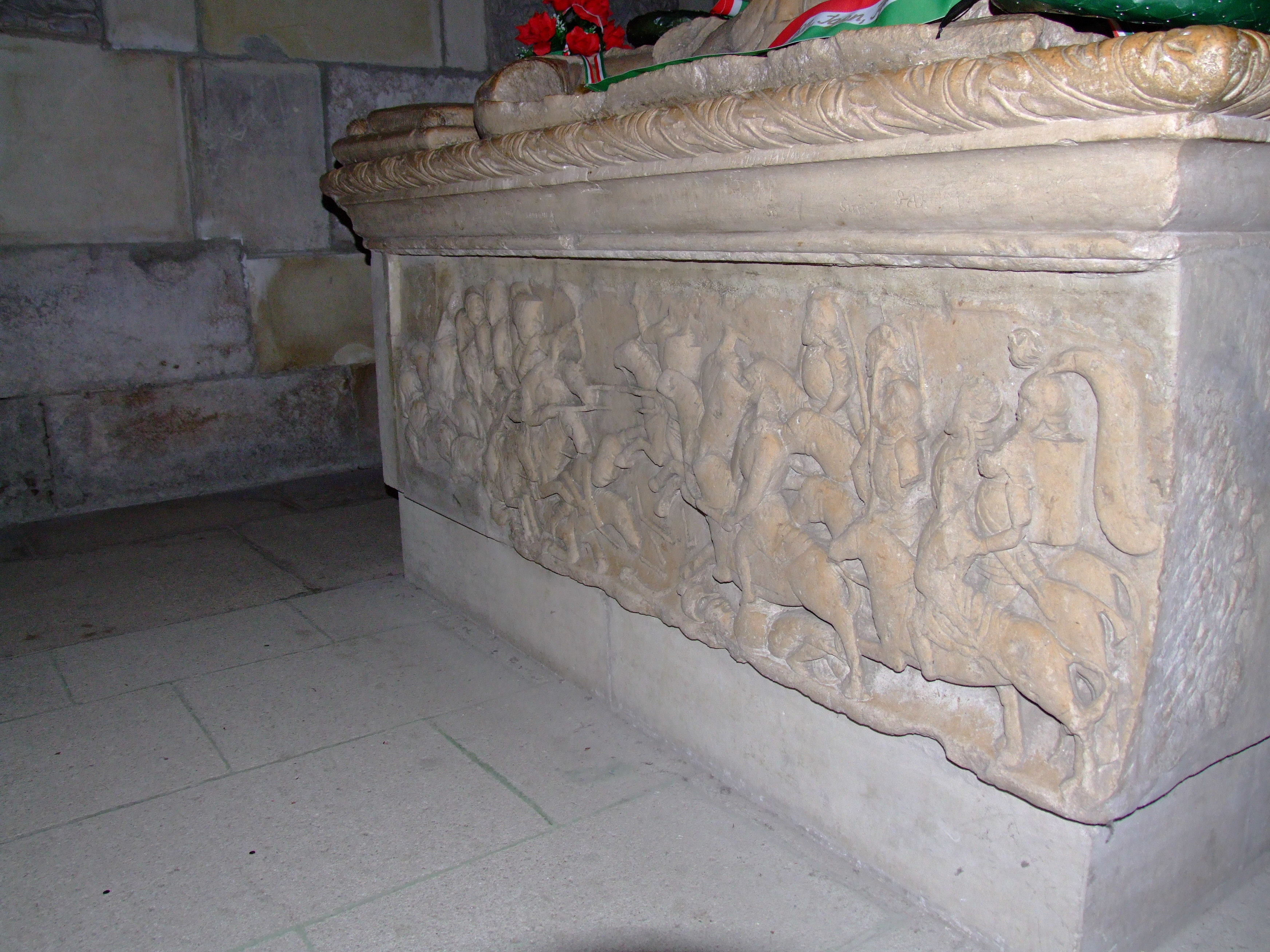 Iancu de Hunedoara tomb: Alba Iulia Roman Catholic Cathedral